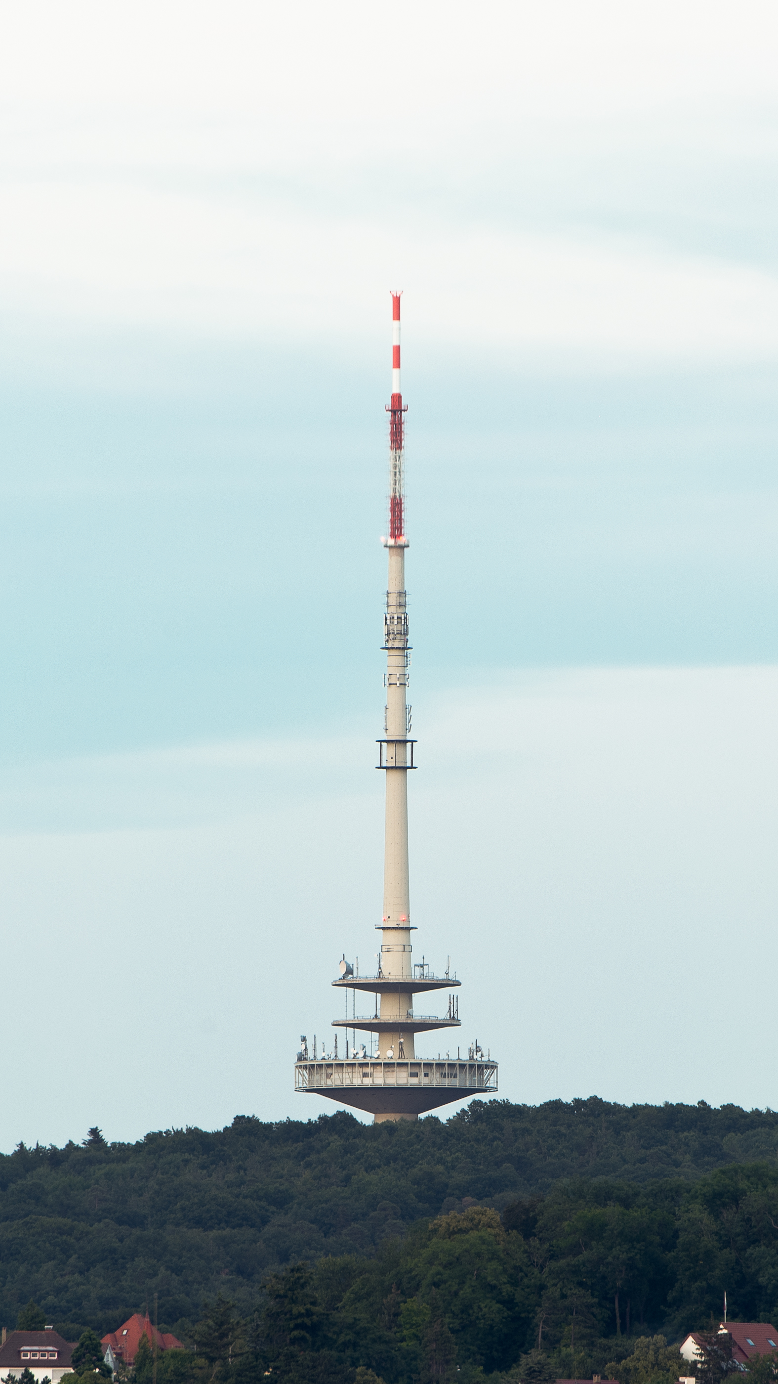 The Stuttgarter Fernmeldeturm a few minutes after sunset, seen from the West.